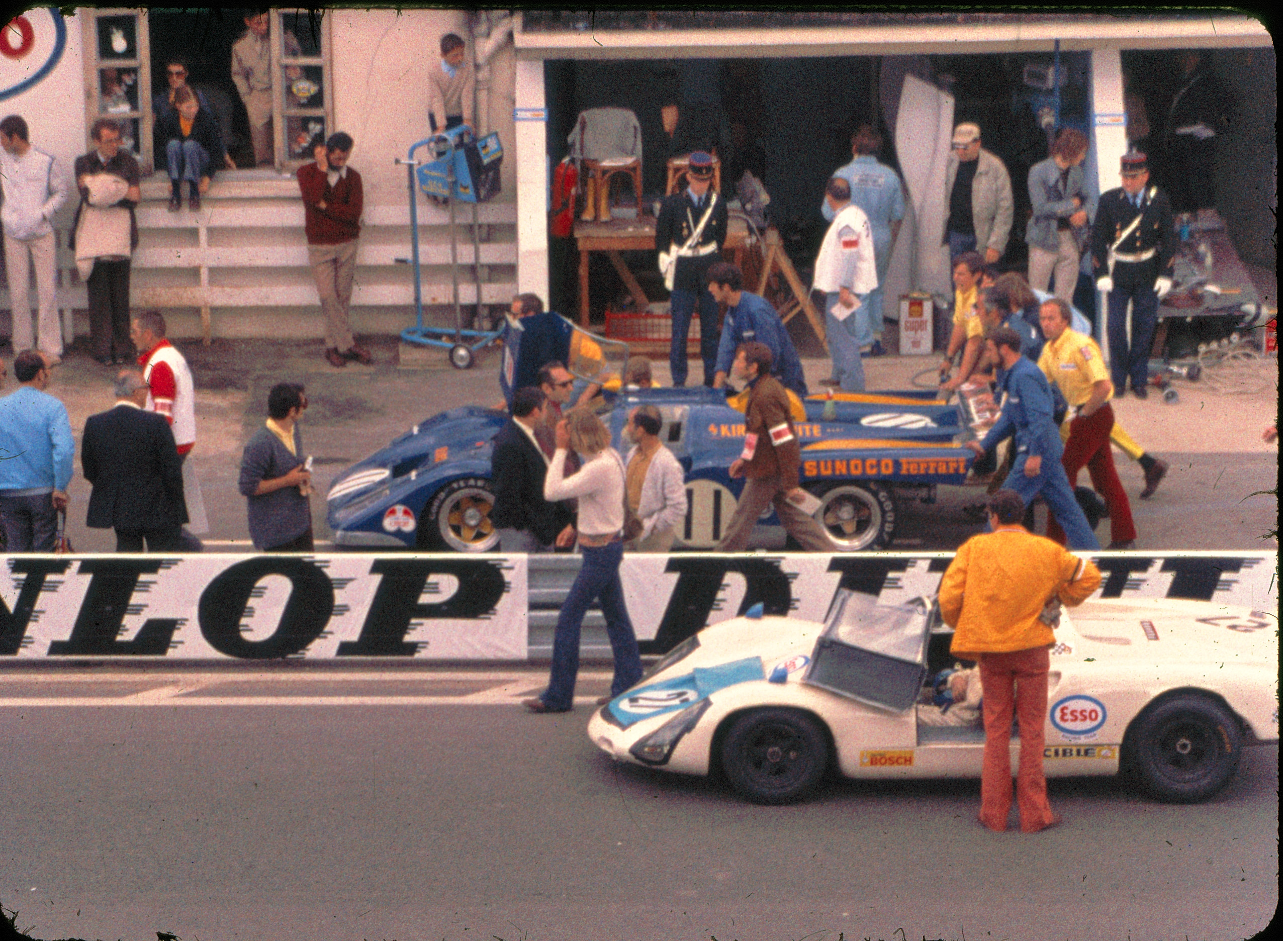 Porsche 910 N°27 Christian Poirot Technique : Catégorie : SP Moteur : F8 Porsche 2997 cm3 Pilotes : Christian Poirot Jean-Claude Andruet Ferrari 512 M/P N°11 Roger Penske - Kirk F. White Technique : Catégorie : Sport Moteur : V12 Ferrari 4993 cm3 Pneus : Goodyear Pilotes : Mark Donohue David Hobbs